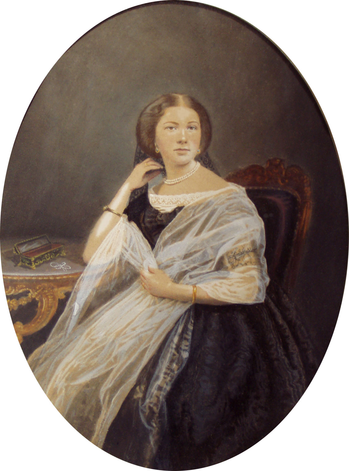 A portrait miniature of Emma Ostaszewska née countess Załuska (1831-1912)